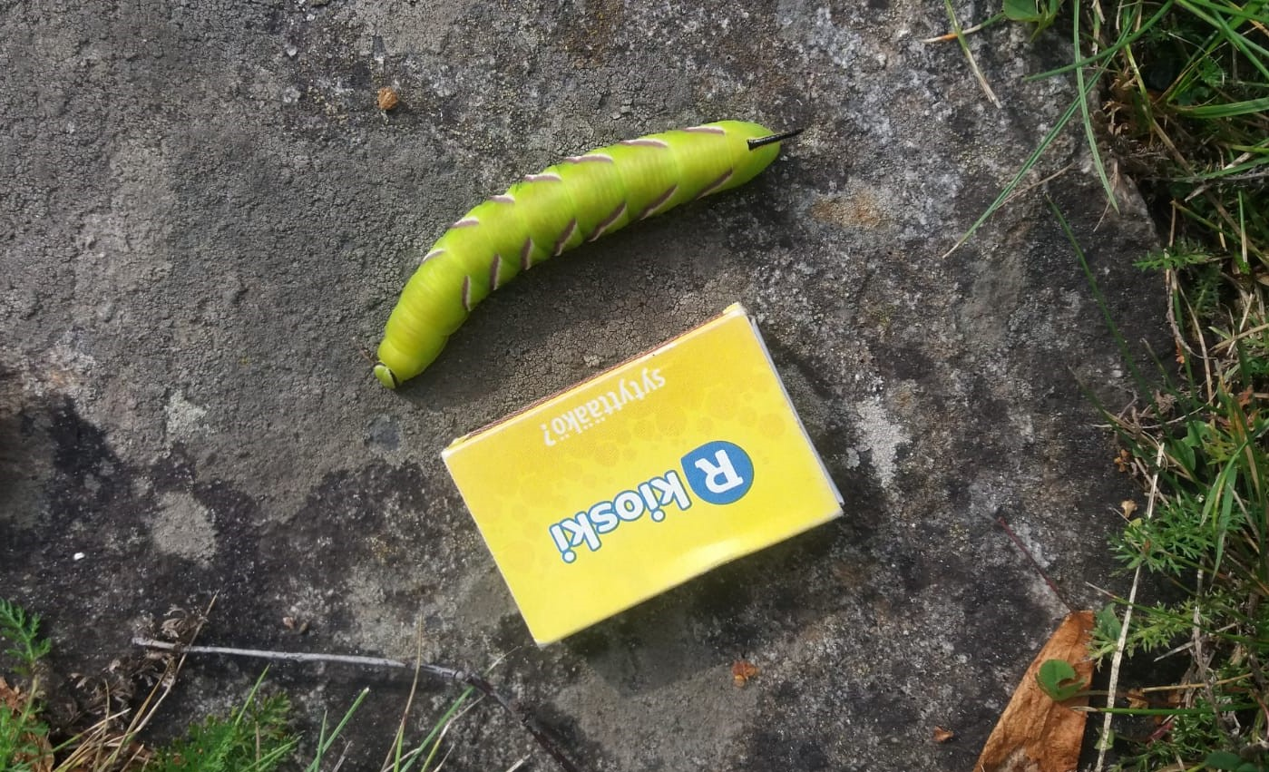 Sphinx ligustri caterpillar and a matchbox to indicate the scale.